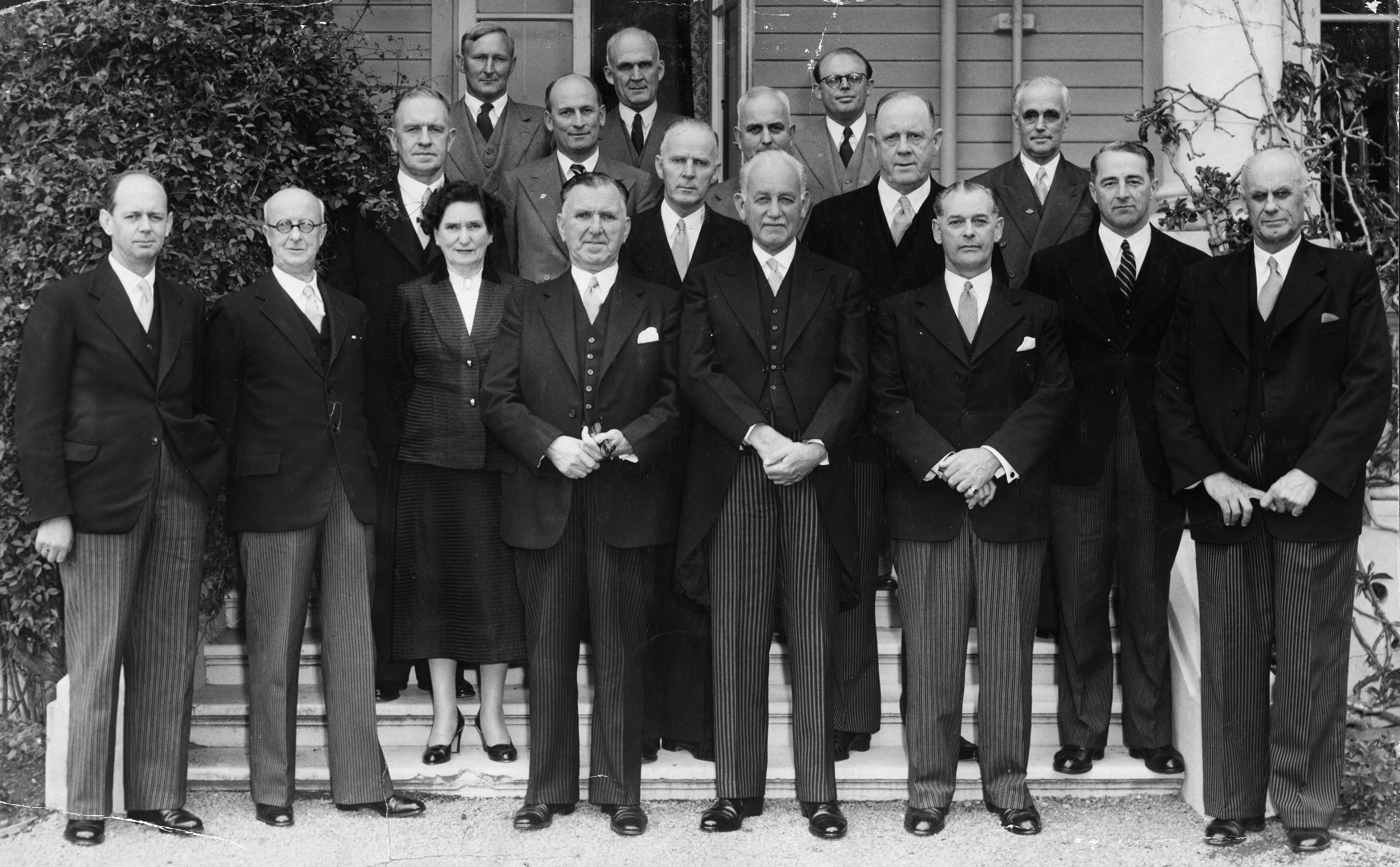 Portrait of Cabinet Ministers with the Governor-General, Sir Willoughby Norrie, at Government House, photographed on 27 November 1954 by an Evening Post staff photographer. Watts, Jack Thomas, 1909-1970; Algie, Ronald Macmillan (Sir), 1888-1978; Ross, Grace Hilda Cuthberta, 1883-1959; Holland, Sidney George (Sir), 1893-1961; Norrie, Charles Willoughby Moke Norrie, 1st Baron, 1893-1977; Holyoake, Keith Jacka (Sir), 1904-1983; Marshall, John Ross (Rt Hon Sir), 1912-1988; Goosman, William Stanley (Hon Sir), 1890-1969; MacDonald, Thomas Lachlan (Sir), 1898-1980; Eyre, Dean Jack, 1914-2007; Corbett, Ernest Bowyer, 1898-1968; Hanan, Josiah Ralph (Hon), 1909-1969; Sullivan, William (Sir), 1891-1967; Smith, Sidney Walter, 1893-1981; Shand, Thomas Philip, 1911-1969; McAlpine, John Kenneth (Sir), 1906-1984; Halstead, Eric Henry (Hon), 1912-1991